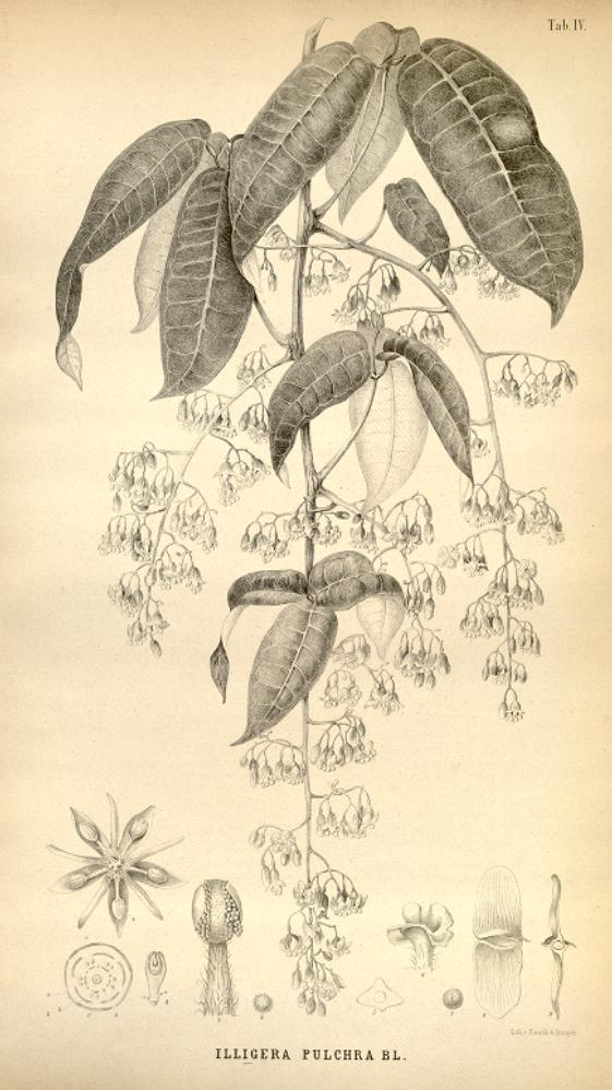 Illustration of Illigera pulchra